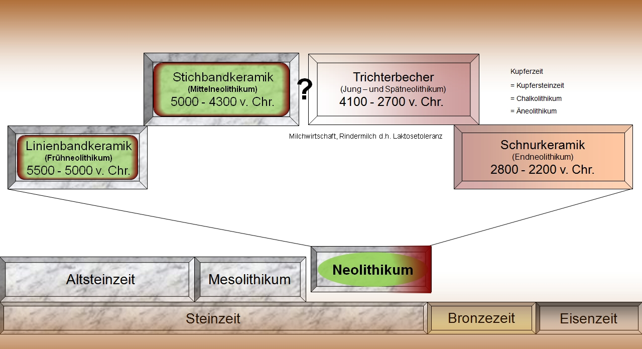 neolithic cultures in the present Dresden area